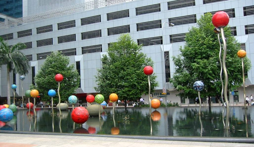 Singaporean sculptor Han Sai Por's sculpture Shimmering Pearls I in front of Capital Tower in Singapore.